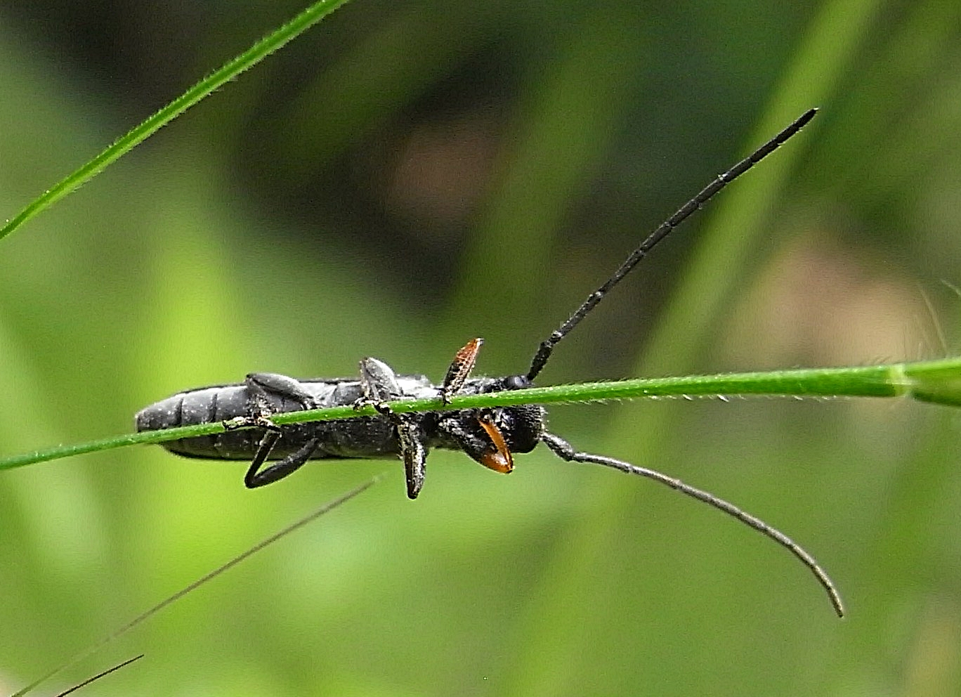 Phytoecia cylindrica from Hungary at Villany-mountains at 2010-05-04 Ricoh R8